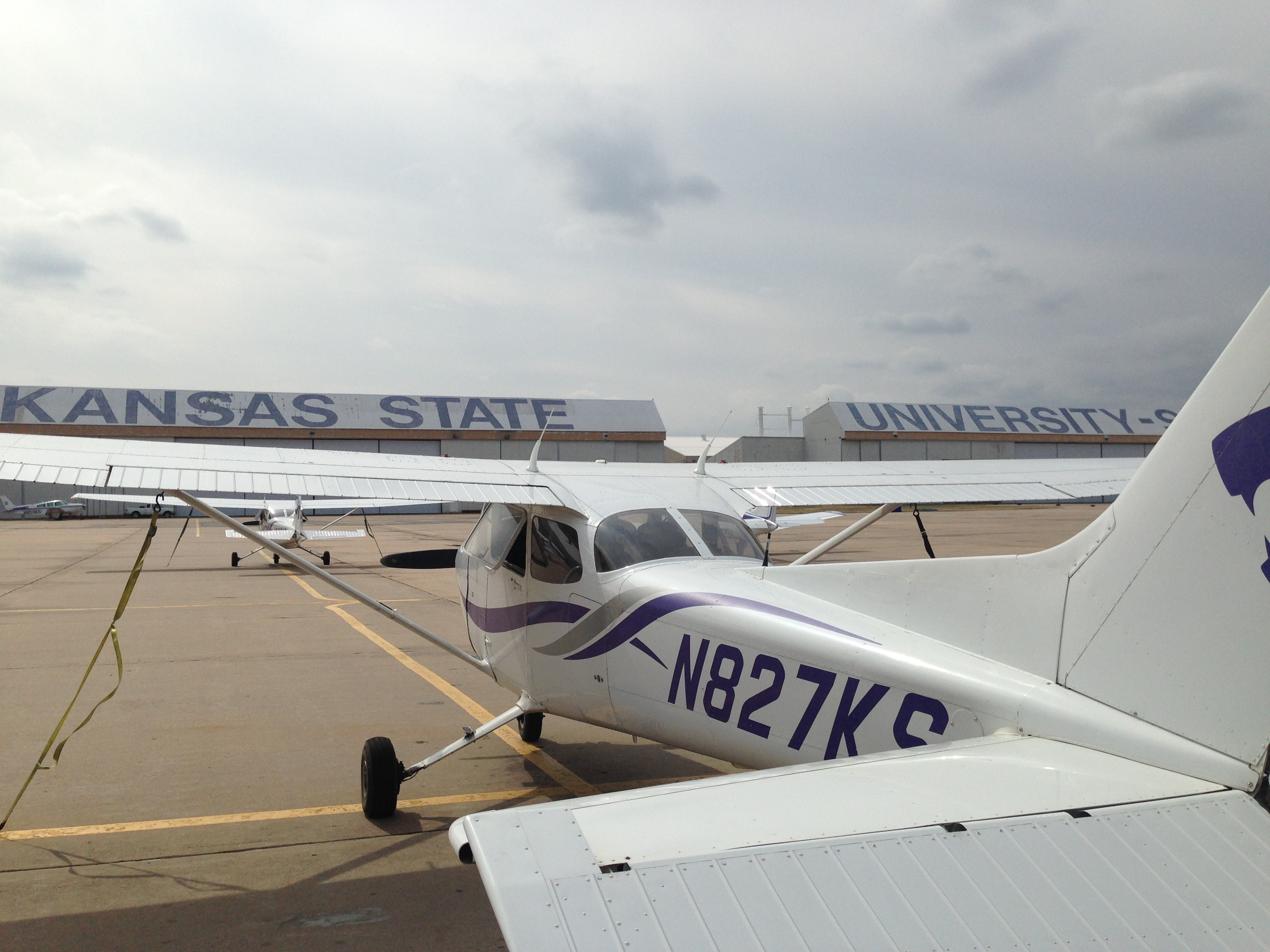 Two C-172R's and two BE-33's of the Kansas State University Fleet.